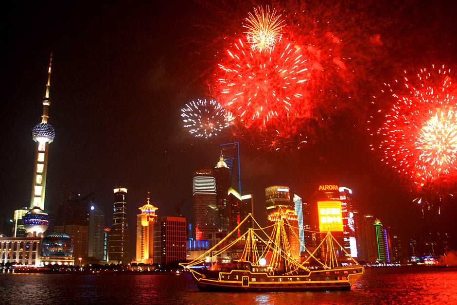 Shanghai at night